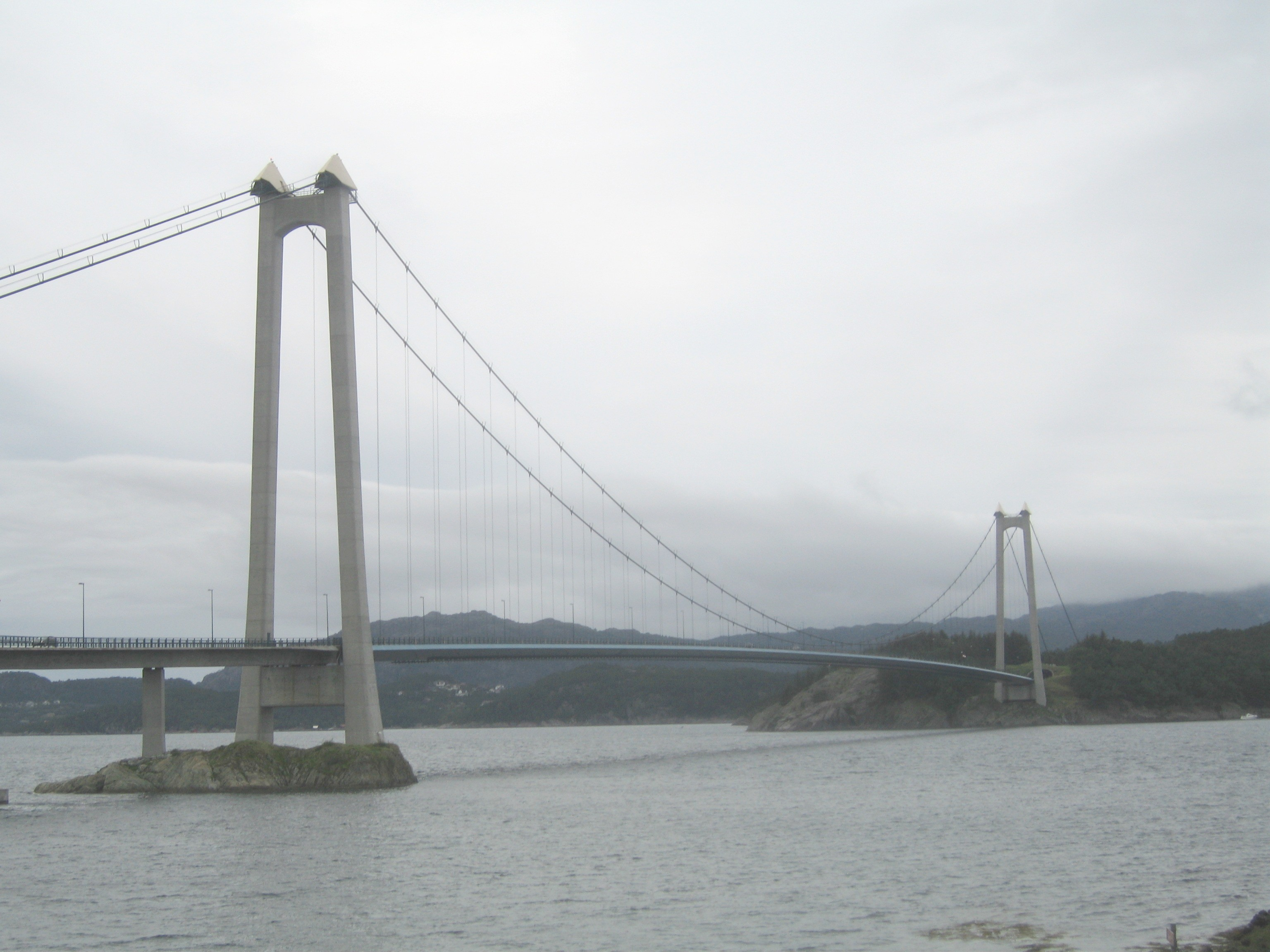 Picture of Stordabrua, taken from the island Føyno